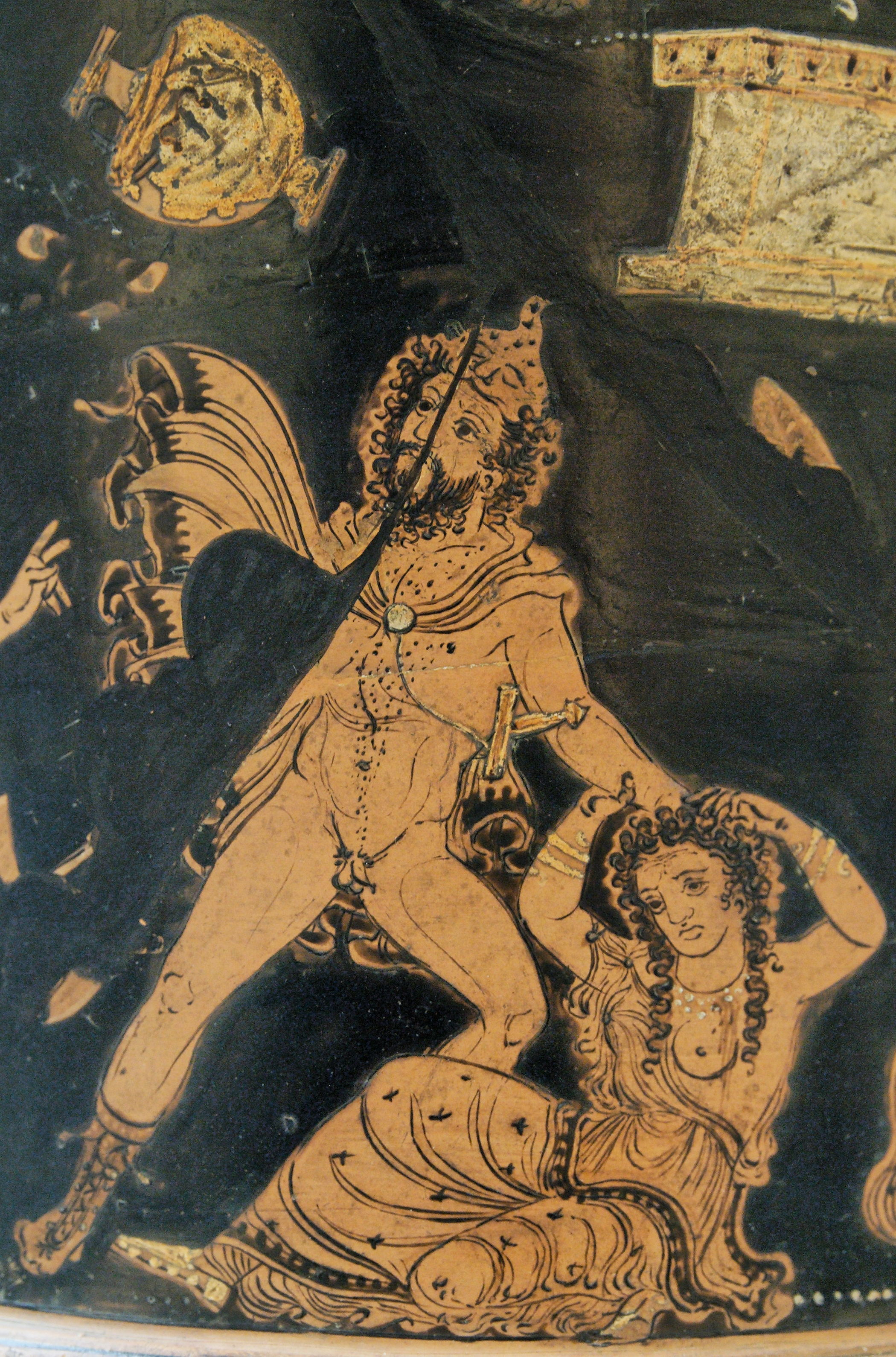 Lycurgus, driven mad by Dionysos, attacks his wife. Detail from an Apulian red-figure calyx-krater, ca. 350-340 BC. From Ruvo.